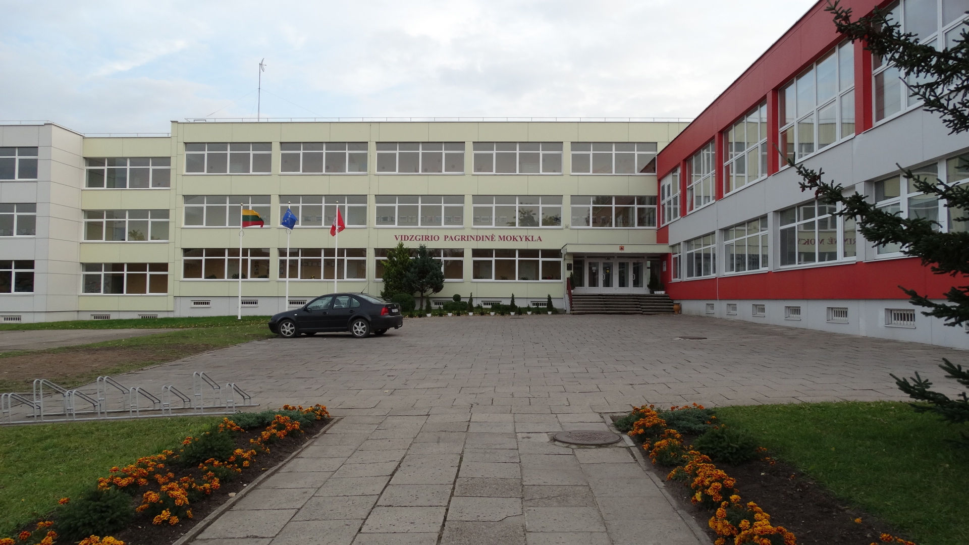 Vidzgiris Basic School, Alytus, Lithuania